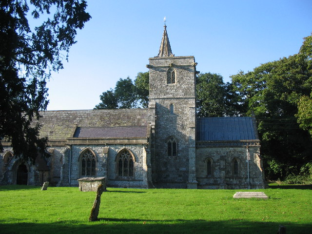 Kingston Deverill church. The church of St. Mary the Virgin, Kingston Deverill in the September evening sunshine.